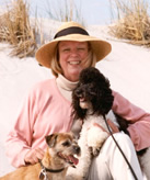 Karen Pryor with her two dogs, Misha and Twitchett. Posted by Karen Pryor's webmaster for .